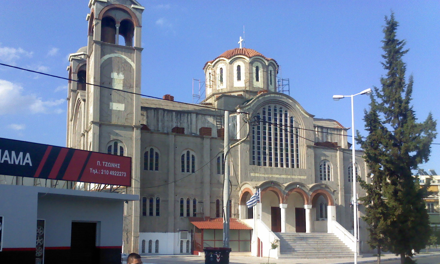 Koimisis Theotikou Renti